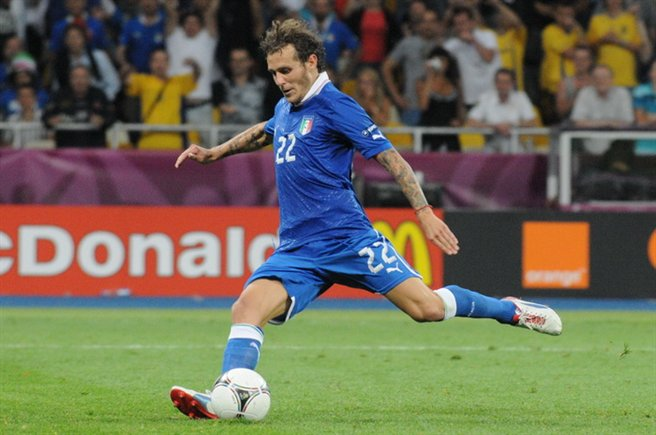 Alessandro Diamanti penalty at Euro 2012 match against England